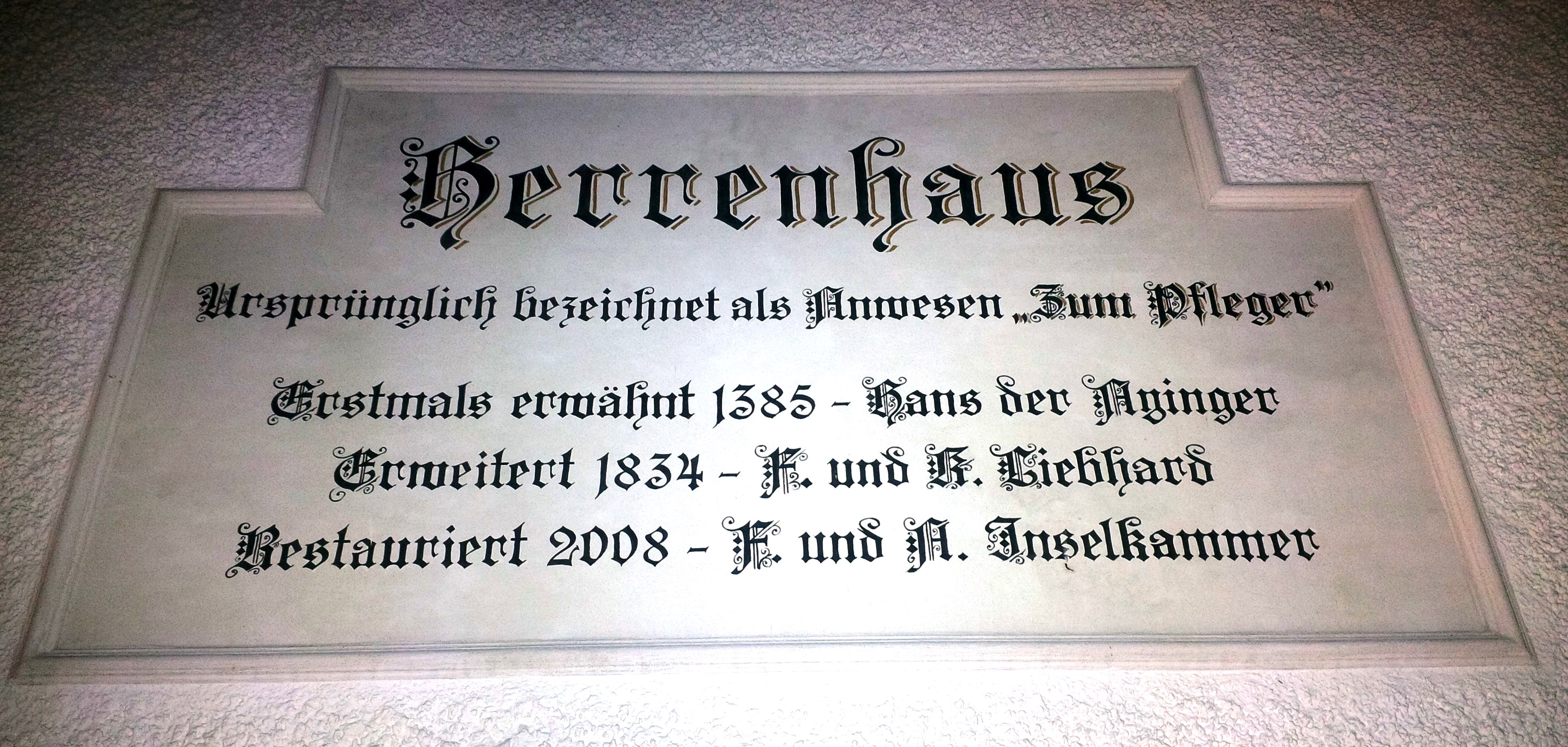 Sign of Herrenhaus Aying in Germany